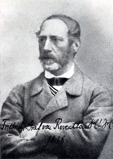 Friedrich Graf von Reventlou (1797–1874); 19th-century german politician